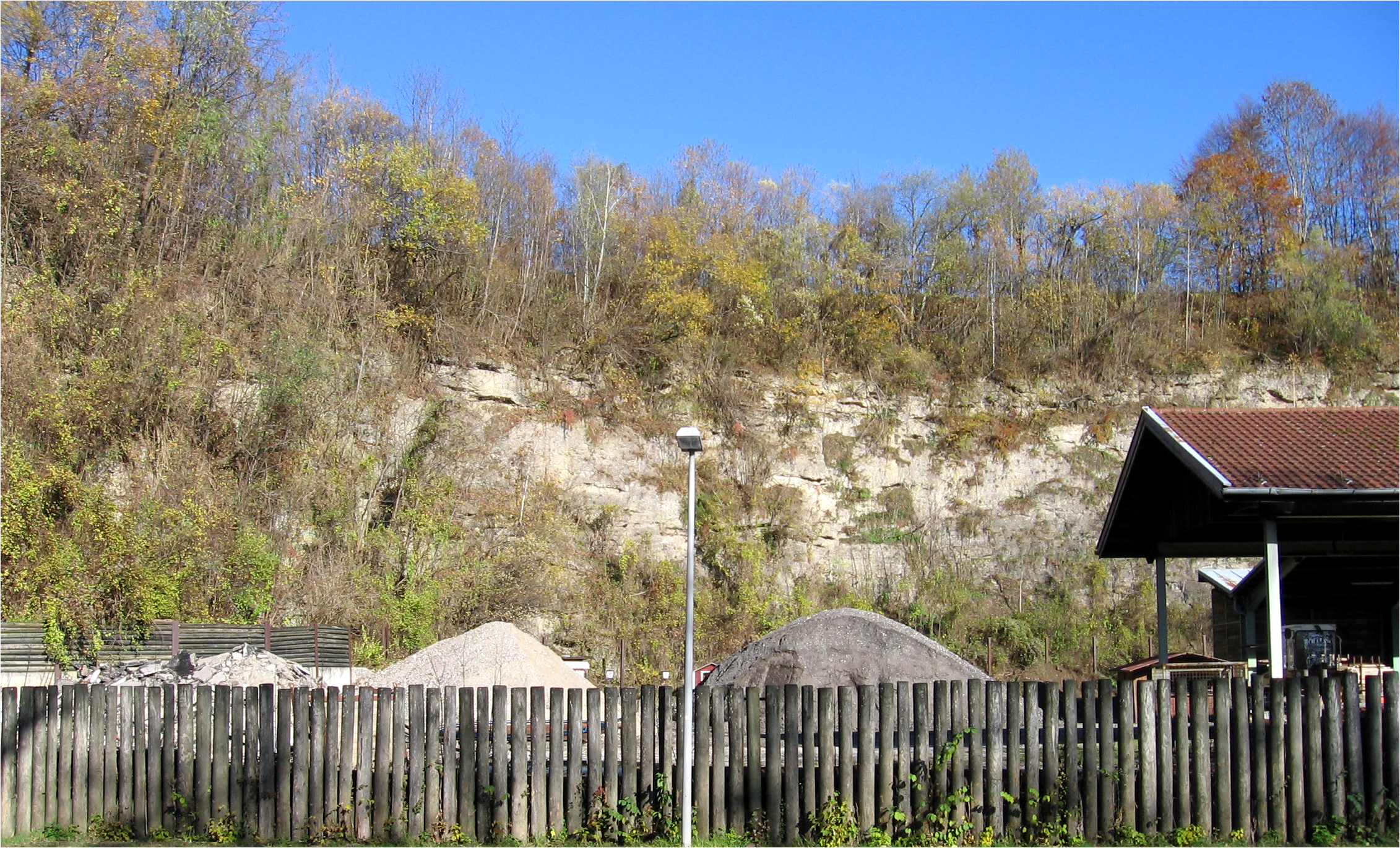 geotope, stone pit, conglomerate, Geotop-Nummer: 189A009, 83374 Traunwalchen Mühlenstraße